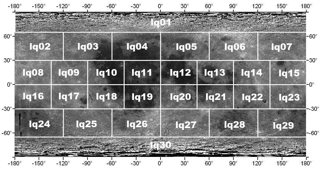 Map showing the USGS' division of the Moon into quadrangles